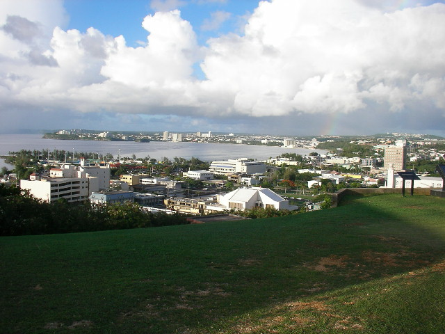 Hagatna, Guam as seen from Fort Apugan